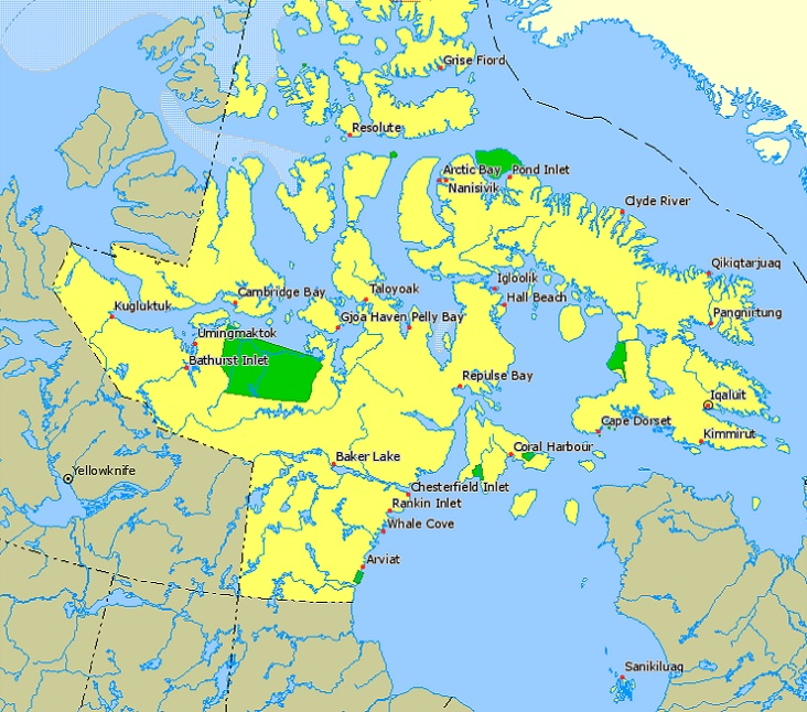 This is a map of bird sanctuaries in Nunavut, Canada. Map is part of a Federal Canadian Atlas with a licence to use. USA federal government is closest category in the licence choices here.